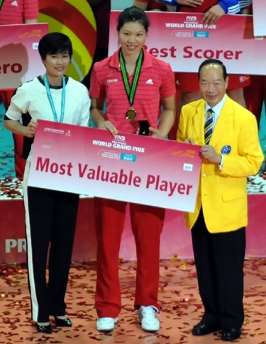 Xu Yunli in the awarding ceremony which she took the MVP award at the WGP 2013.jpg